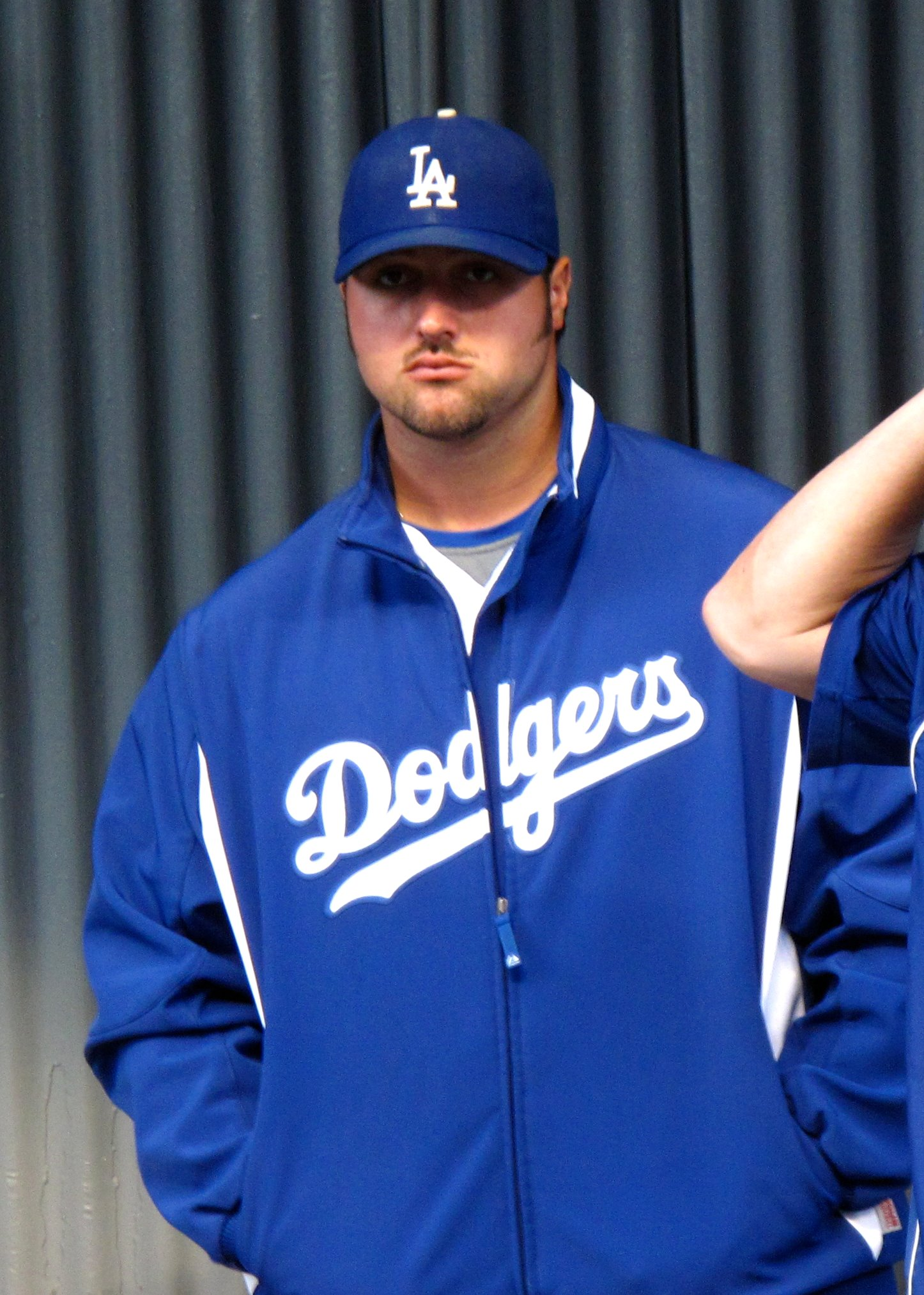 Jonathan Broxton